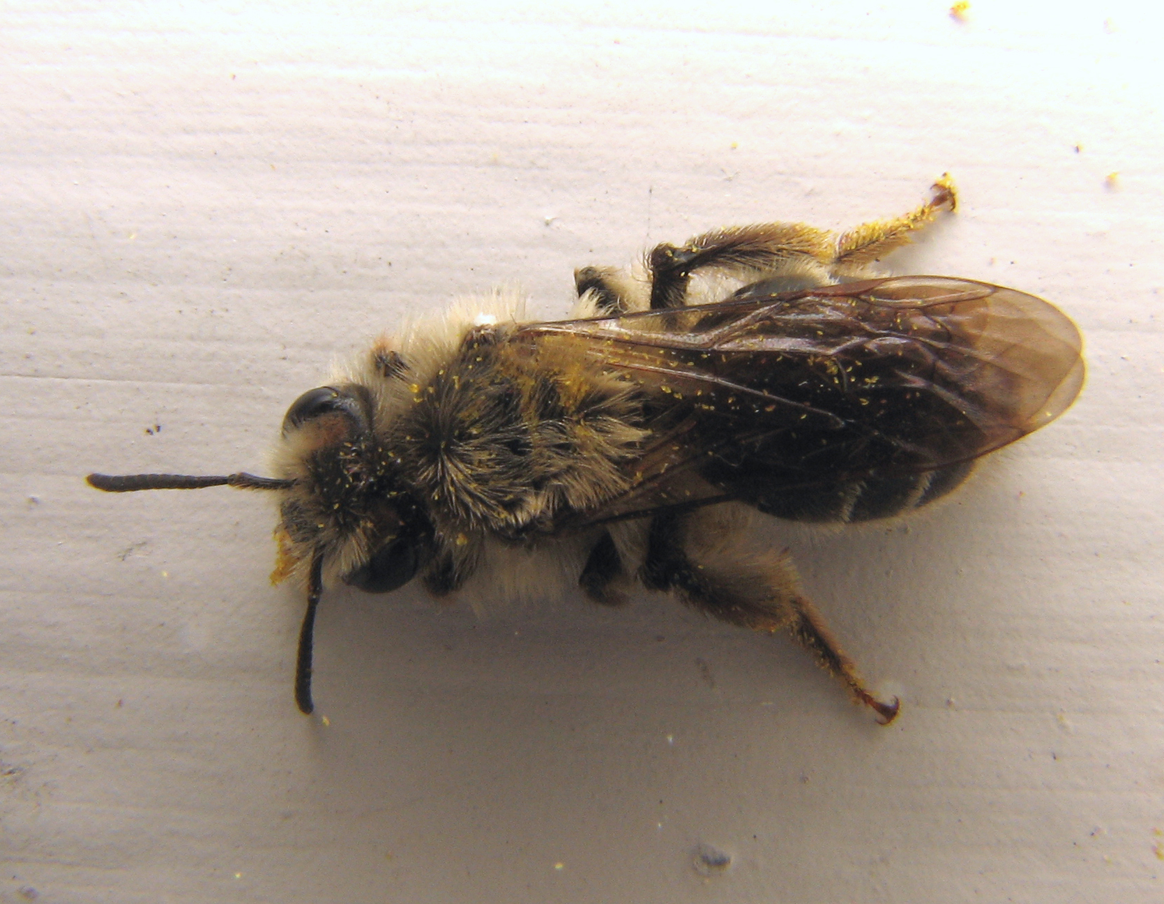 Andrena erythronii, female, found on trout lily. Bowman's Hill Wildflower preserve, Bucks County, Pennsylvania, USA. April 18, 2009.